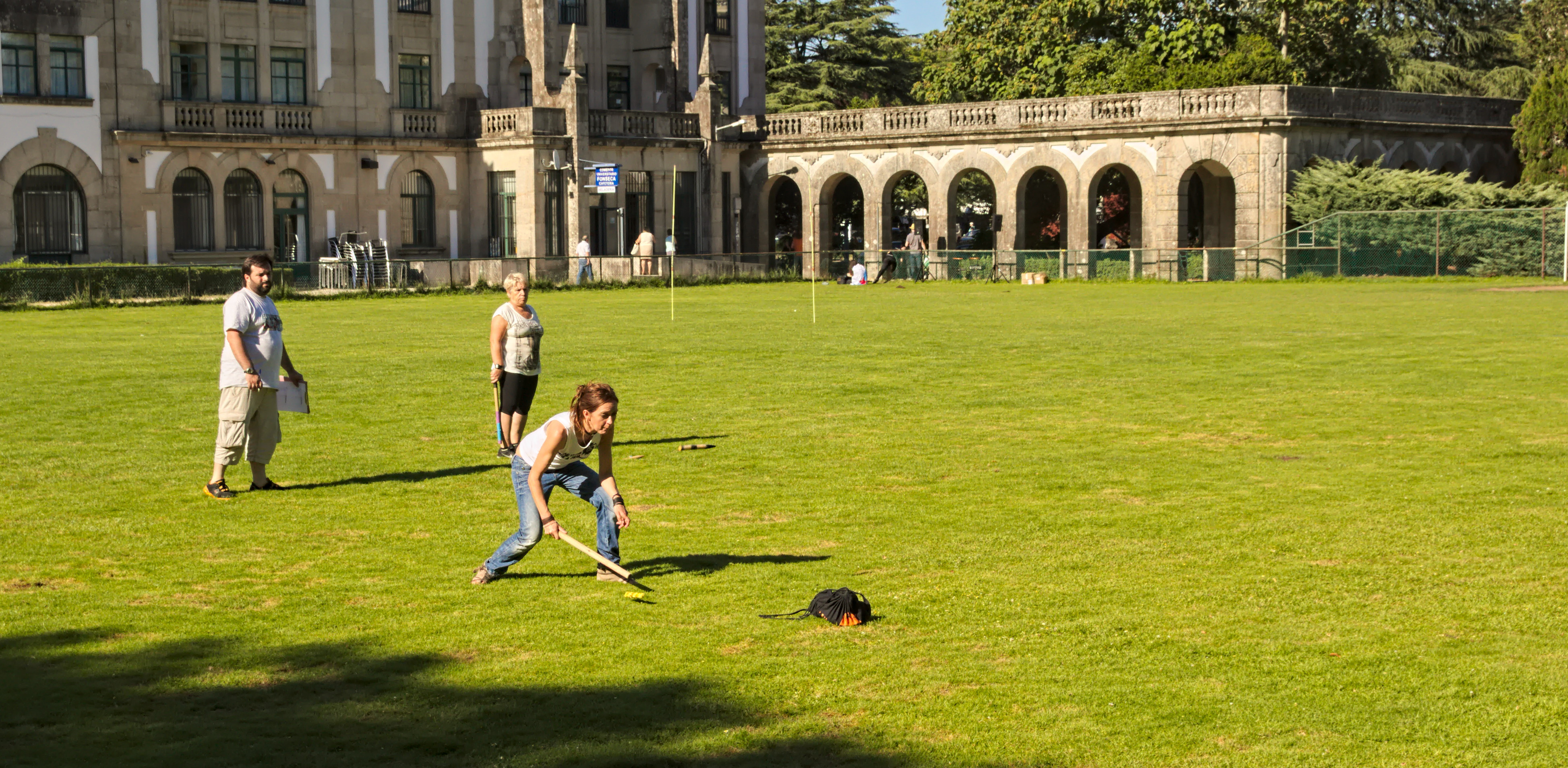 Game of billarda in Santiago de Compostela, Galicia, Spain.